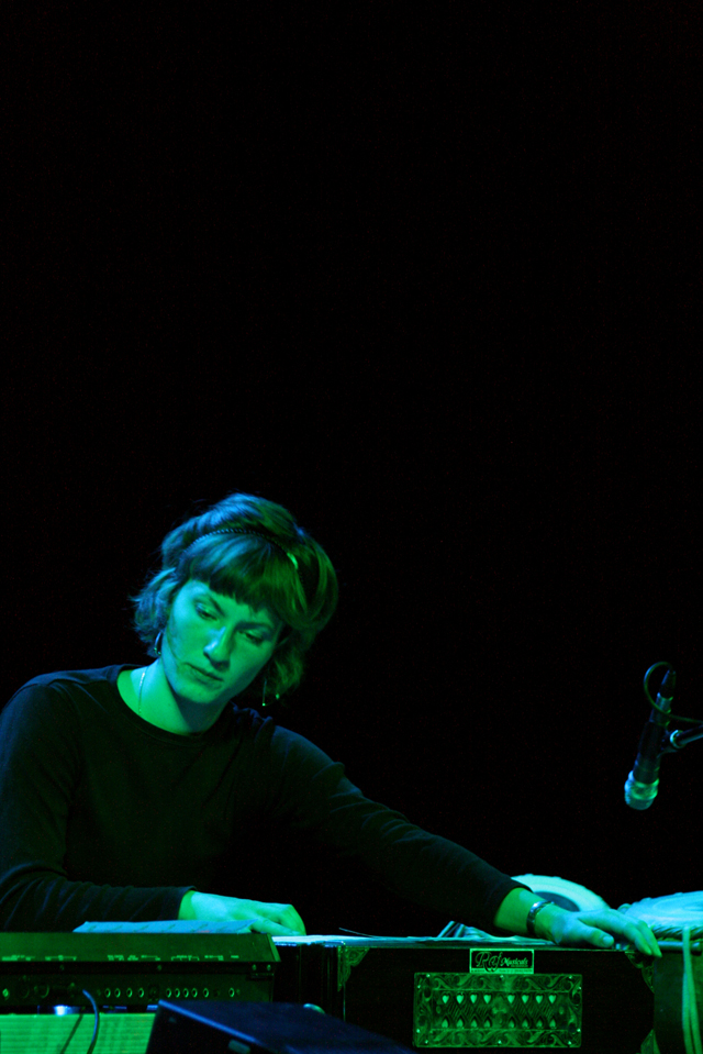 László Hortobágyi with the Gáyan Uttejak Orchestra in Buda, Budapest, Hungary.